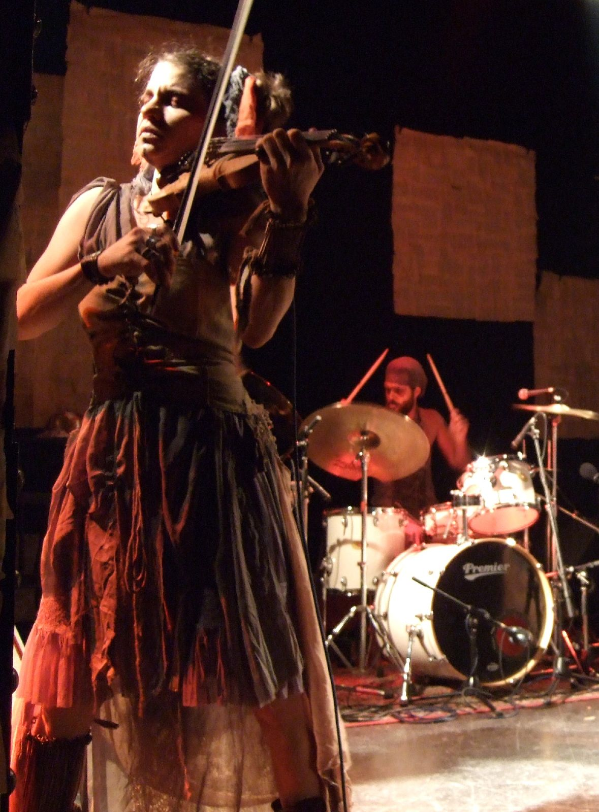 Carla Kihlstedt performing with Sleepytime Gorilla Museum at Unlimited 21 in Wels, Austria on 2007-11-12.